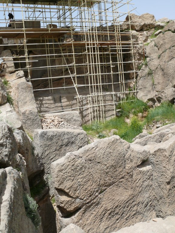 Unachieved tomb of Darius III, Persepolis museum, Iran